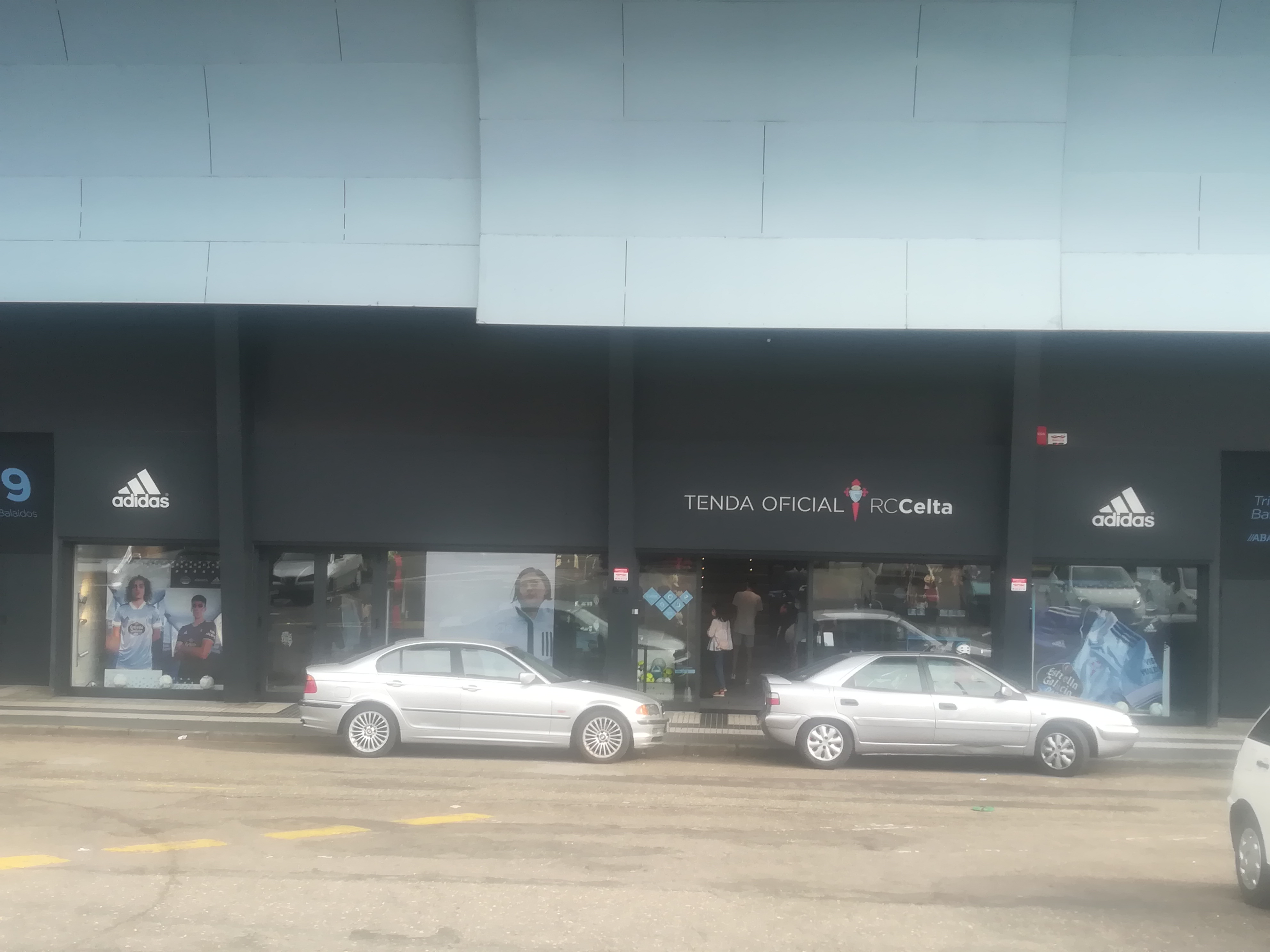 Official store of the Real Club Celta de Vigo in the Balaídos stadium in the city of Vigo.